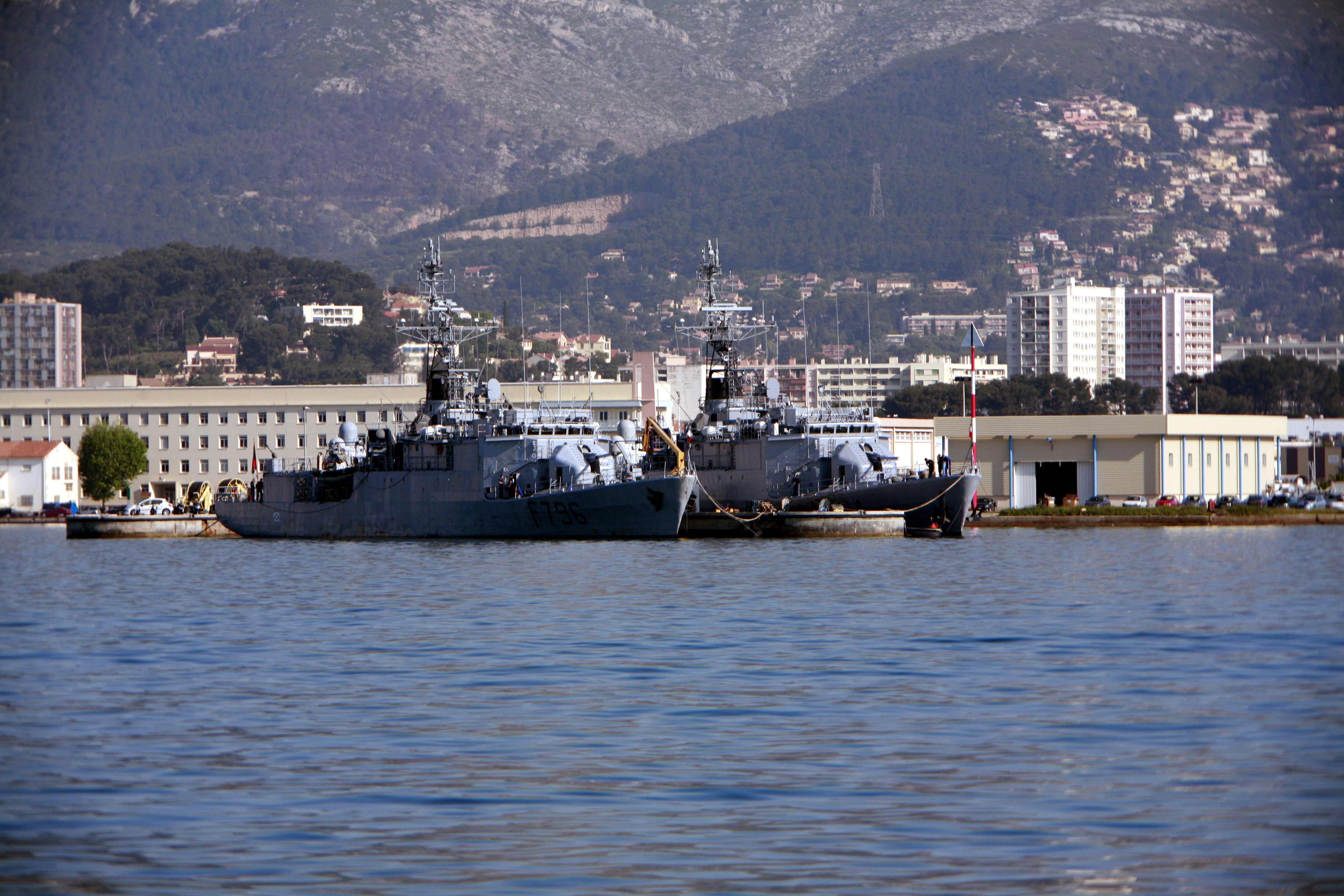 French aviso Commandant Birot moored in Toulon.